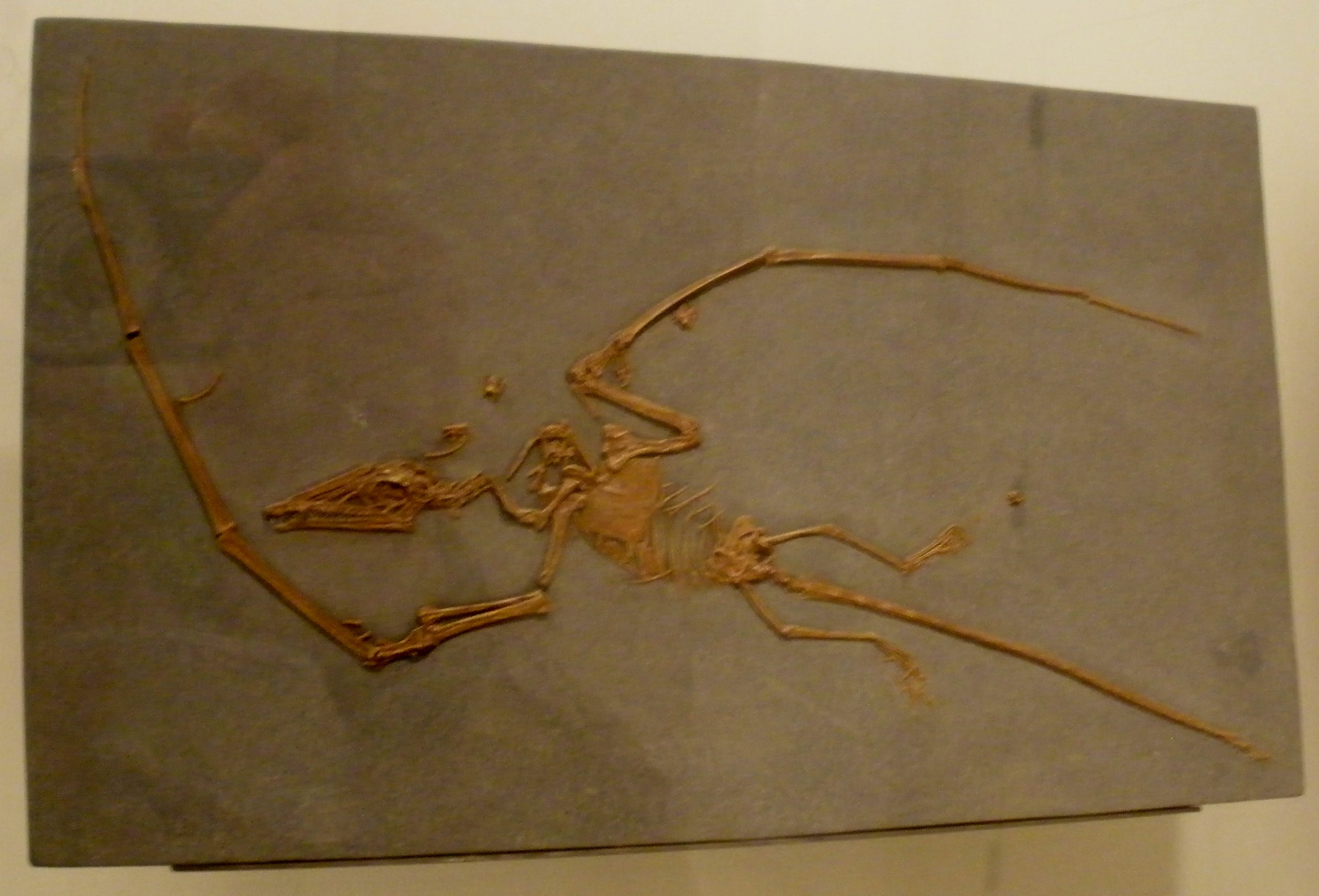 Skeleton of Campylognathoides, a pterosaur